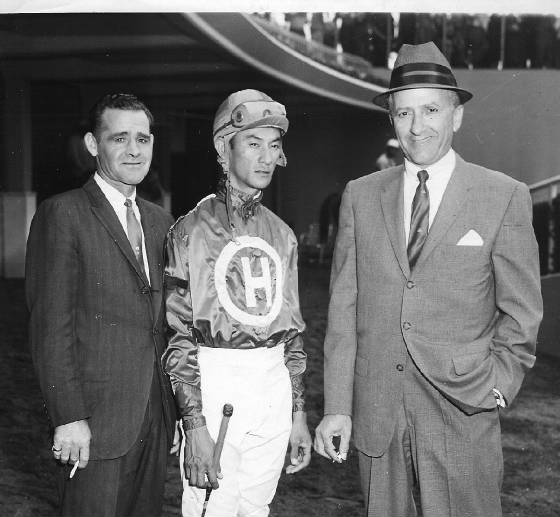 Camilo Marin, right.